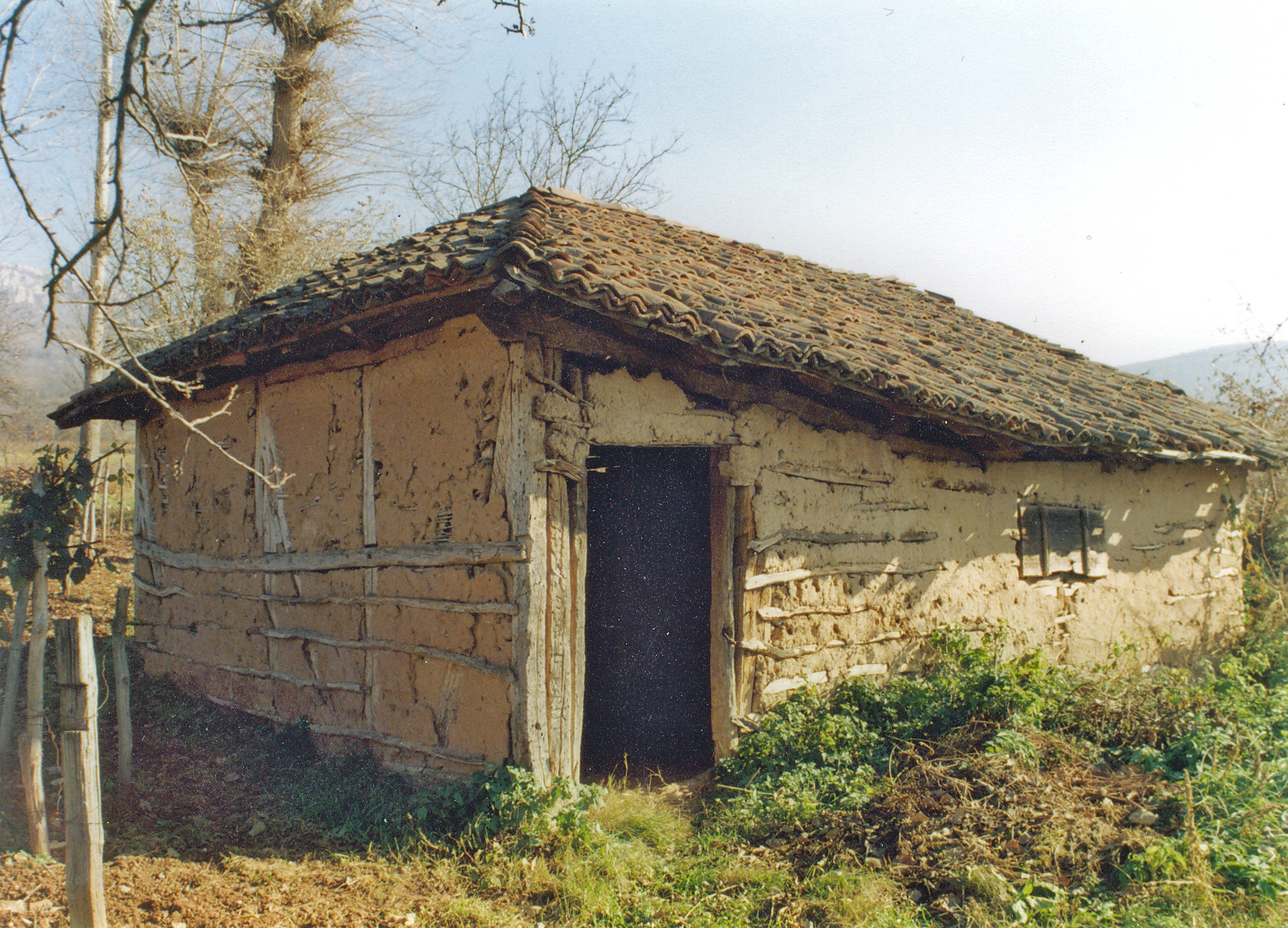 Traditional old Serbian house "chatmara" with wooden (bonded) construction filled with a mixture of loam and straw